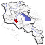 Map of Yerevan in Armenia